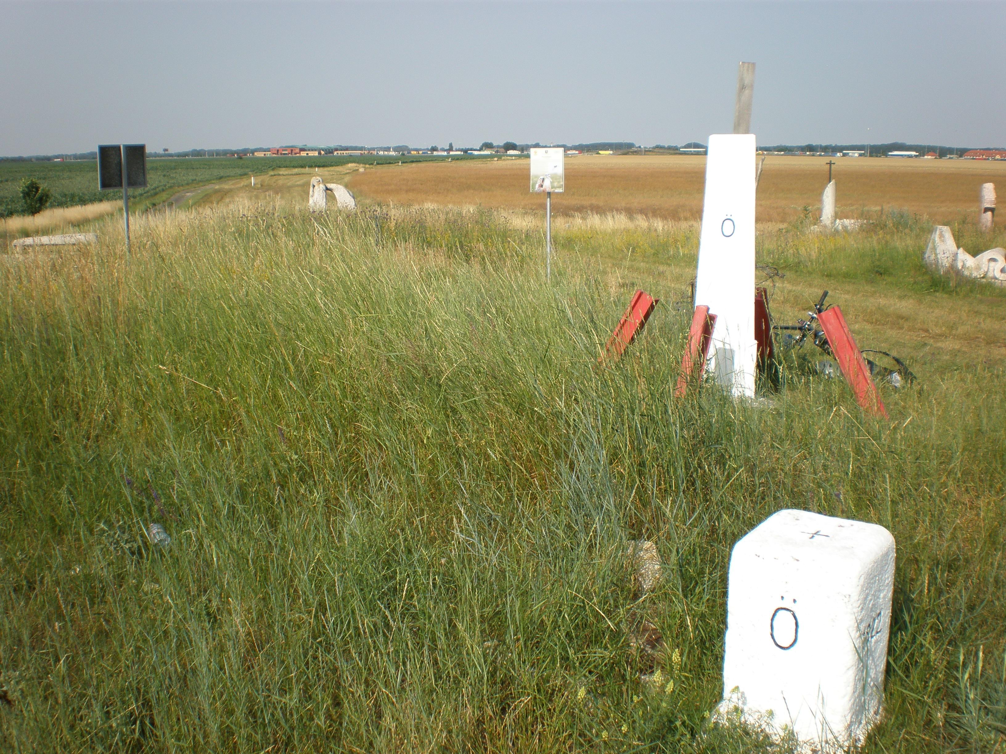 Tripoint at the border of Slovakia, Austria and Hungary, as seen from austrian side with (Bratislava - Rusovce (Čunovo) (SK)- Rajka (H) motorway border crossing in the background.